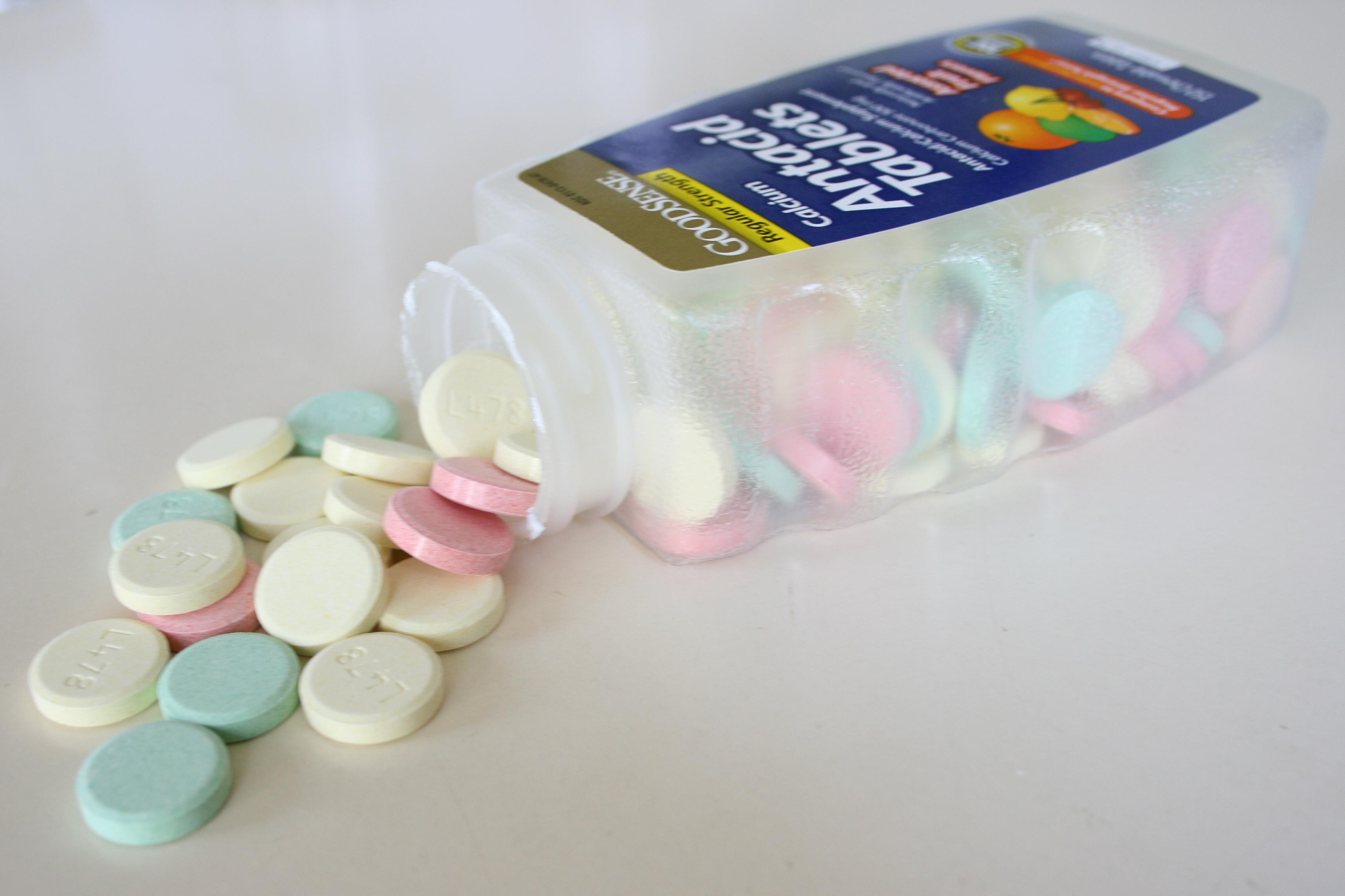 Bottle of Antacid tablets